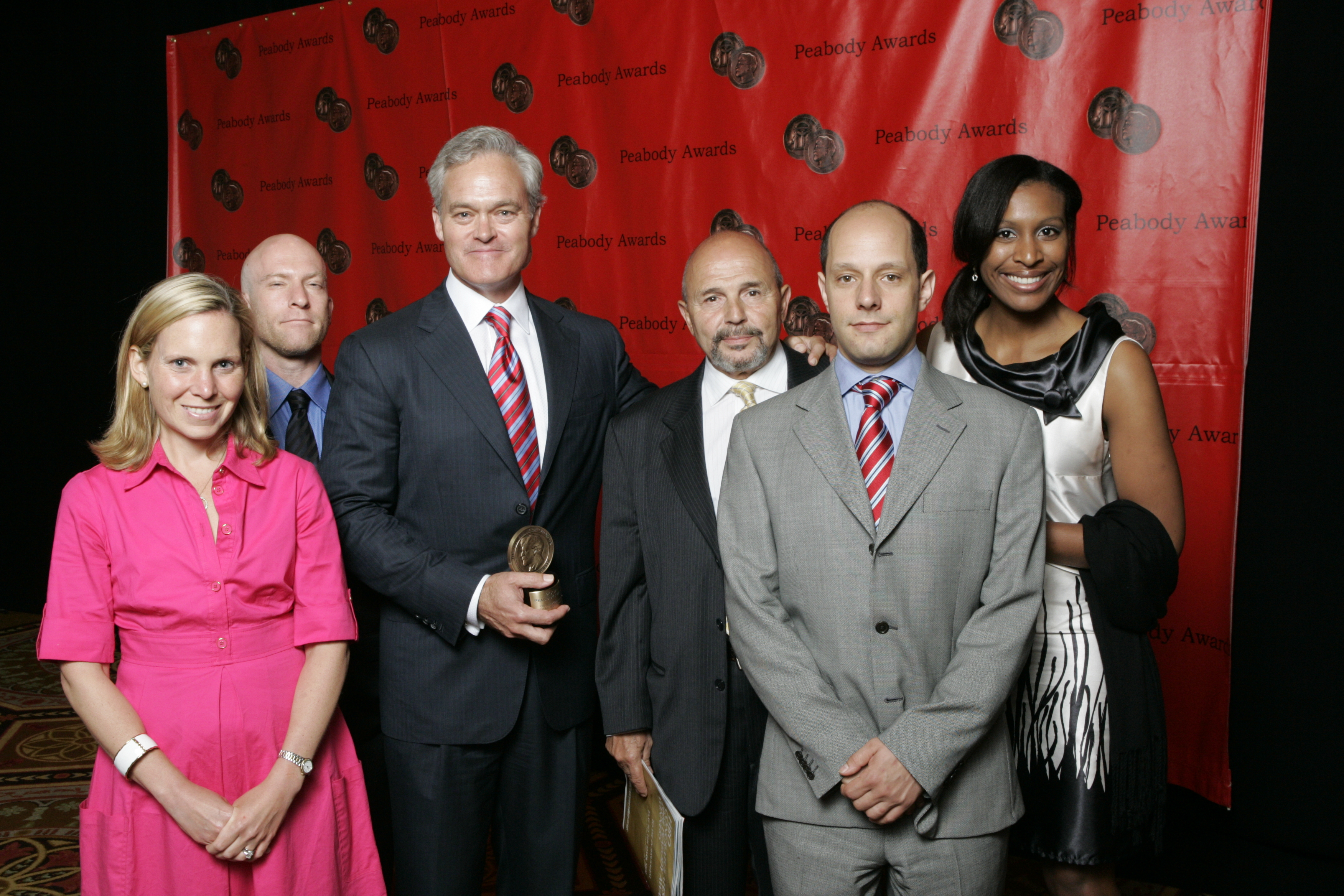 PHOTO CREDIT: ANDERS KRUSBERG / PEABODY AWARDS Catherine Herrick, Solly Granatstein, Scott Pelley, Andy Soto, Shawn Efran, and Nicole Young, 67th Annual Peabody Awards Luncheon Waldorf=Astoria Hotel New York, NY USA June 16, 2008